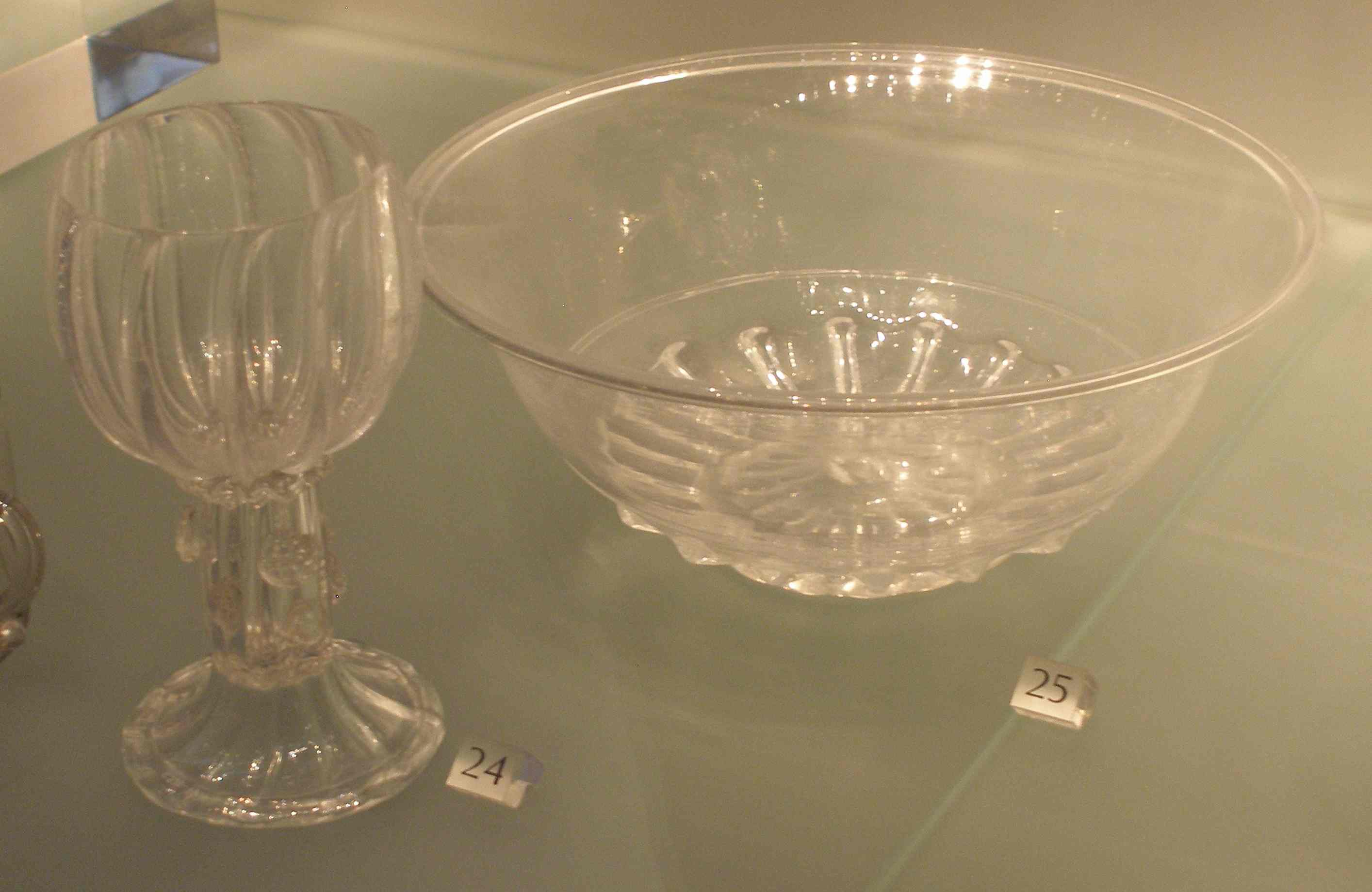 Ravenscroft lead crystal glass: roemer (left) and bowl (right), both crizzled and bearing the raven's head seal. Available to view in the V&A Museum, London.